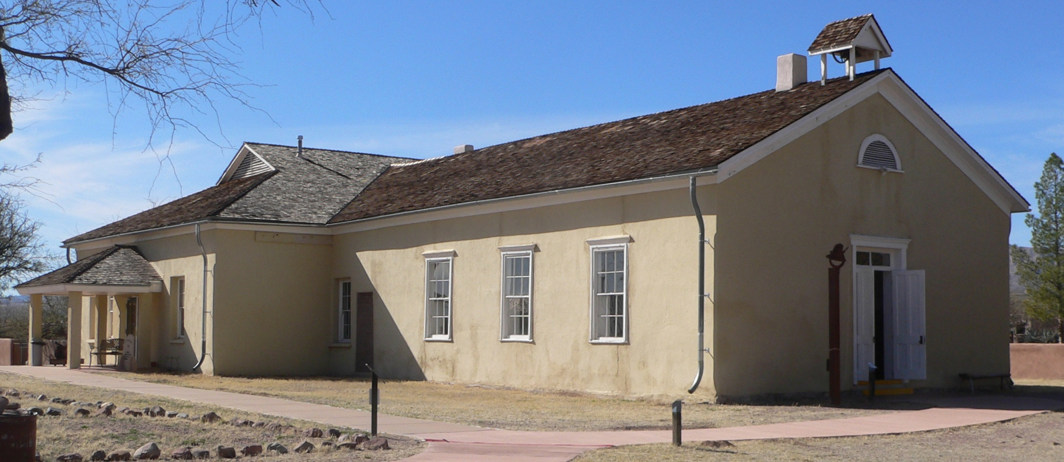 Old Tubac Schoolhouse, located in Tubac Presidio State Historic Park in Tubac, Arizona.